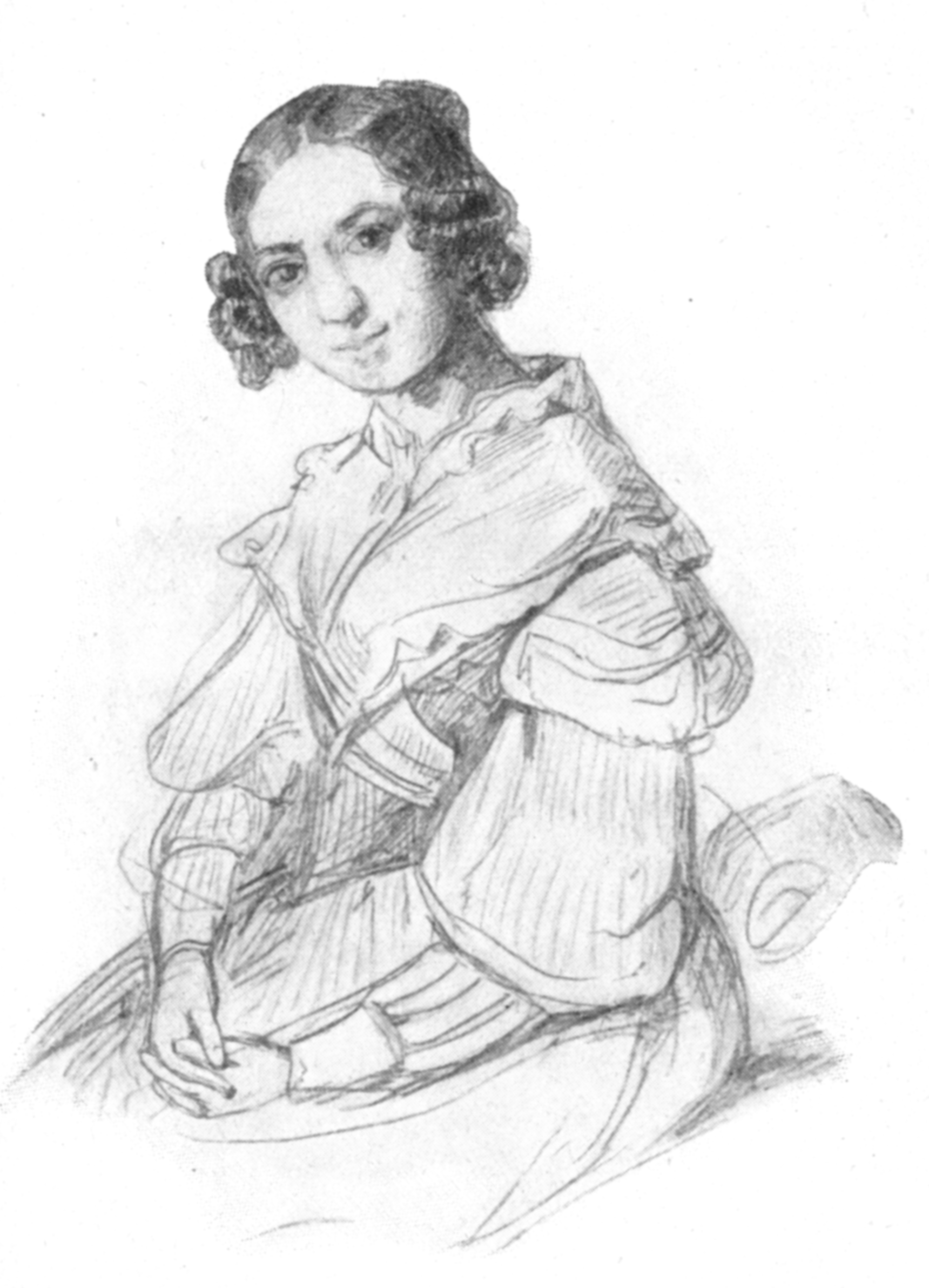 Portrait of Adele Schopenhauer (1797–1849), owned by the Goethe-Nationalmuseum